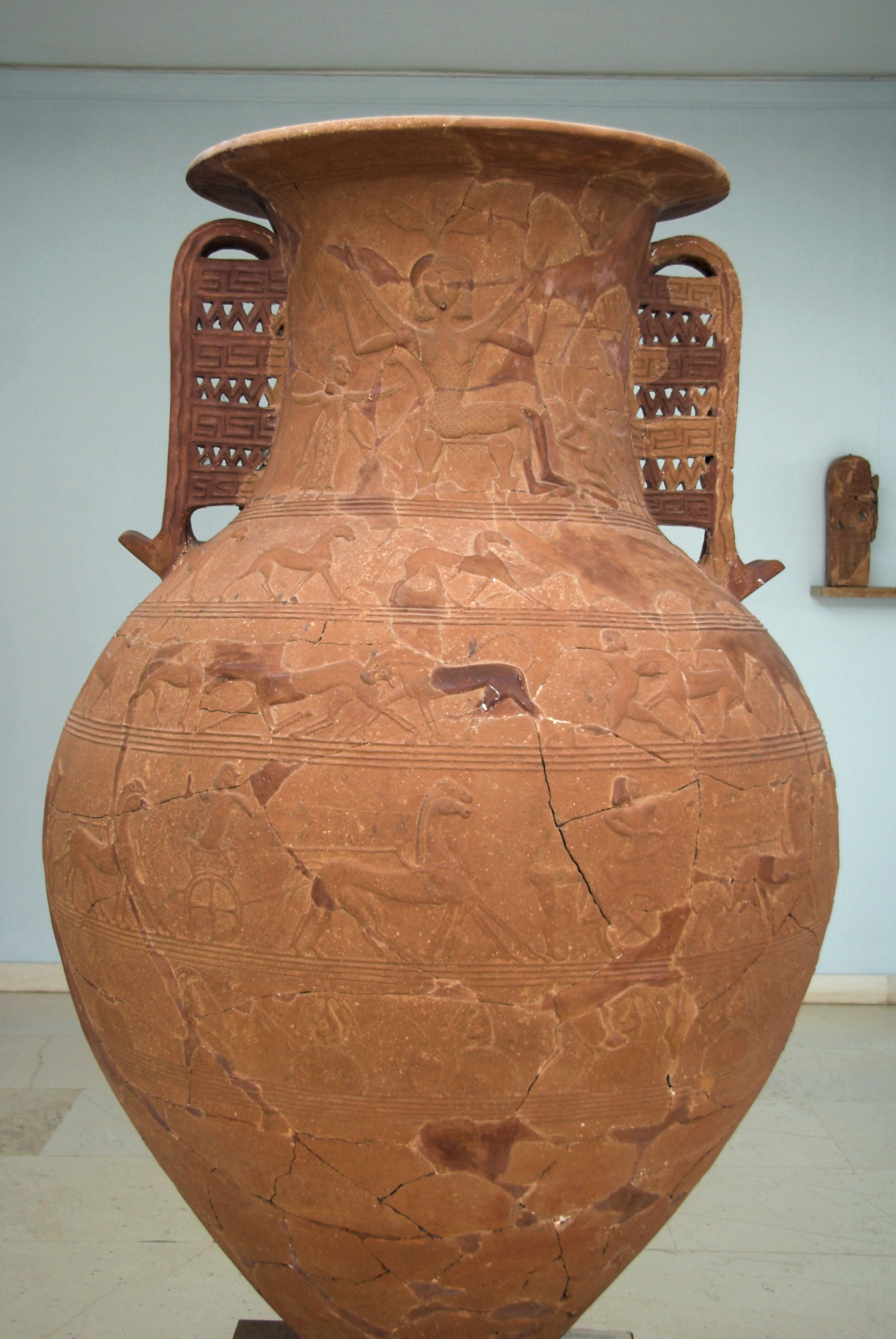 Large pithos with relief, island orientalizing work from the years 700-675 BC. Archaeological Museum of Tinos, B 64. Formally reminds pithos 2044 in the Archaeological Museum of Mykonos. Here, however, the scene with winged deities, said perhaps "the birth of Athena from Zeus 'head', and underneath it all possible.